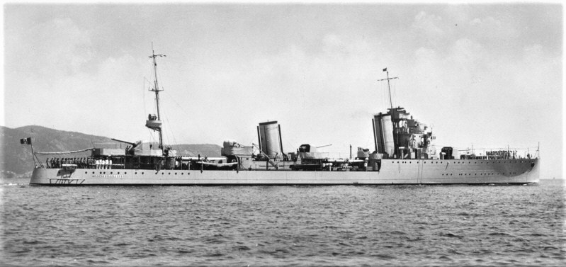 The Regia Marina ship Nicoloso da Recco of Navigatori class destroyer in navigation.